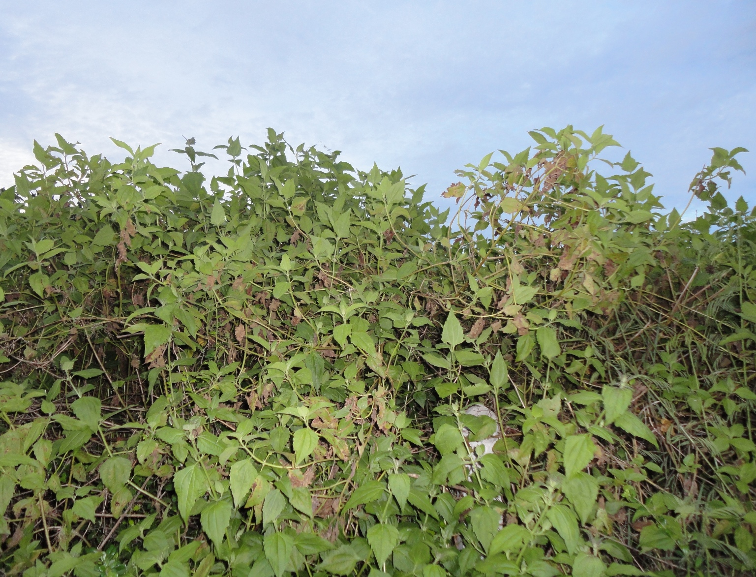 Melanthera biflora; 2 m high bush using concrete pillar fence as support. Ratchaburi Province, Thailand